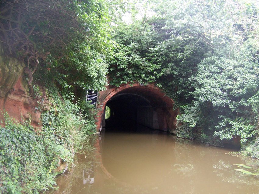 Author: Martin Cordon, Source: Own Image. Martin Cordon 12:11, 7 November 2007 (UTC)